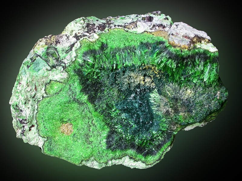 Guilleminite, Vandenbrandeite, Cuprosklodowskite Locality: Musonoi Mine, Kolwezi, Western area, Katanga Copper Crescent, Katanga (Shaba), Democratic Republic of Congo (Zaïre) (Locality at ) Size: 9 x 6 x 6 cm. A large Cuprosklodowskite vug filled with very well formed dark green Vandenbrandeite crystals. These are dusted over with the rare uranium selenite Guilleminite in good yellow crystals. Such association is not common. Musonoi is the type locality for Guilleminite and in this specimen the crystals are very well formed but under one millimeter.